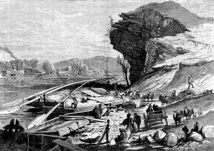 The Tennessee at Chattanooga, a wood engraving drawn by Harry Fenn and published in Picturesque America, D. Appleton & Company, New York, New York.